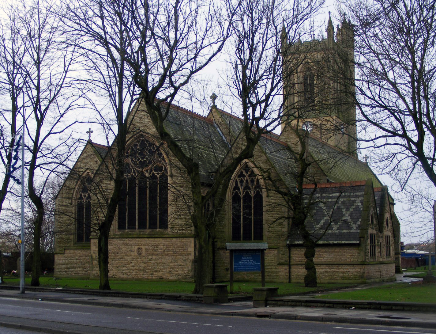 St Peter's Church, Swinton, Greater Manchester, England.